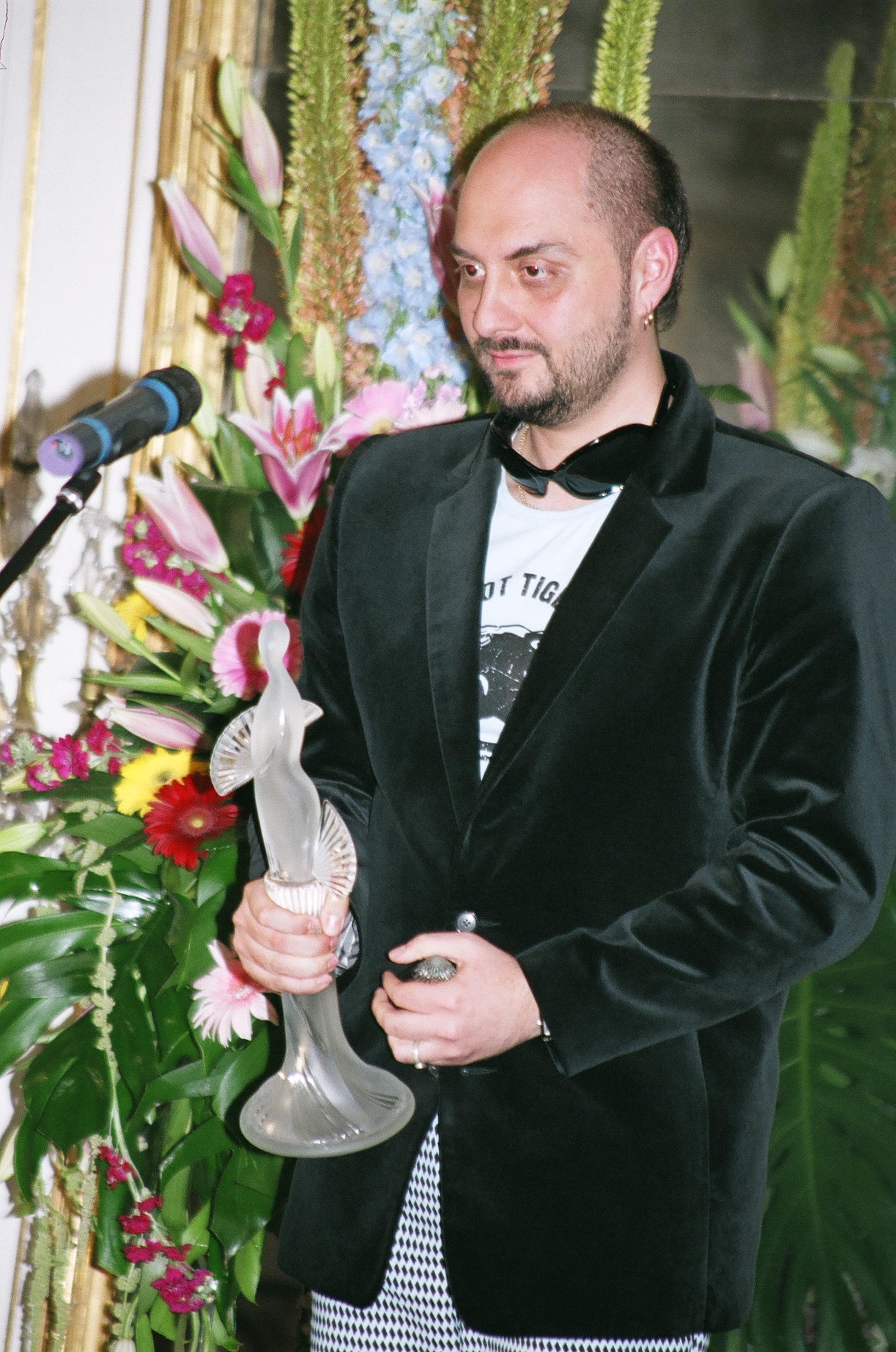 Кирилл Серебренников на вручении премии "Хрустальная турандот" в 2004 г.